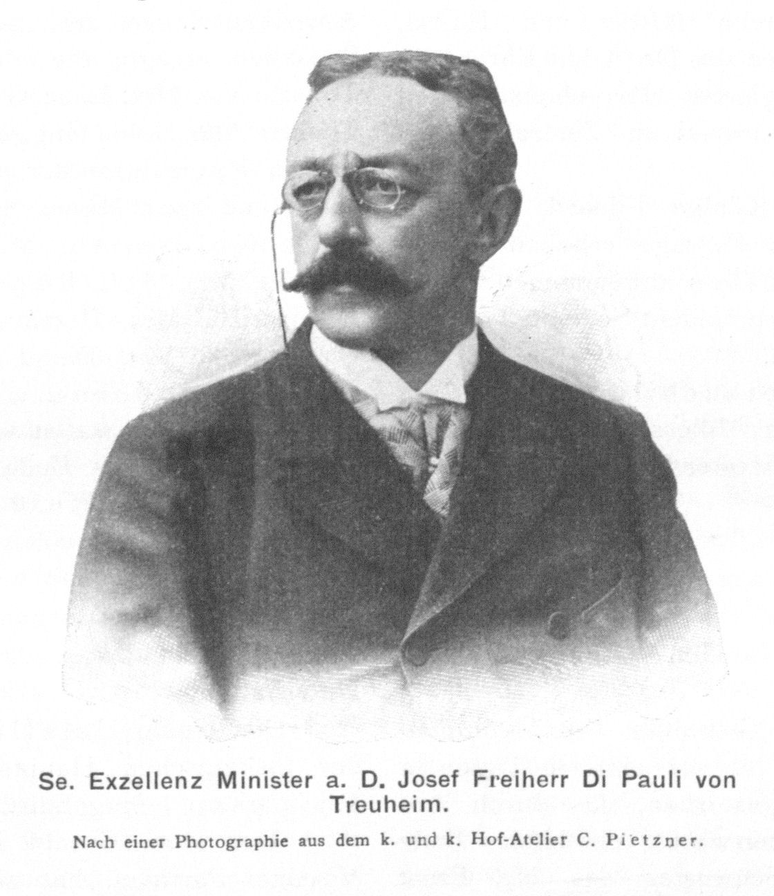 Portrait of Josef von Dipauli (also mentioned as Josef Freiherr Di Pauli von Treuheim; 1844-1905), Austrian politician.